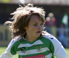 Taken by myself at a recent WSL2 match between Yeovil Town Ladies & Oxford United ladies